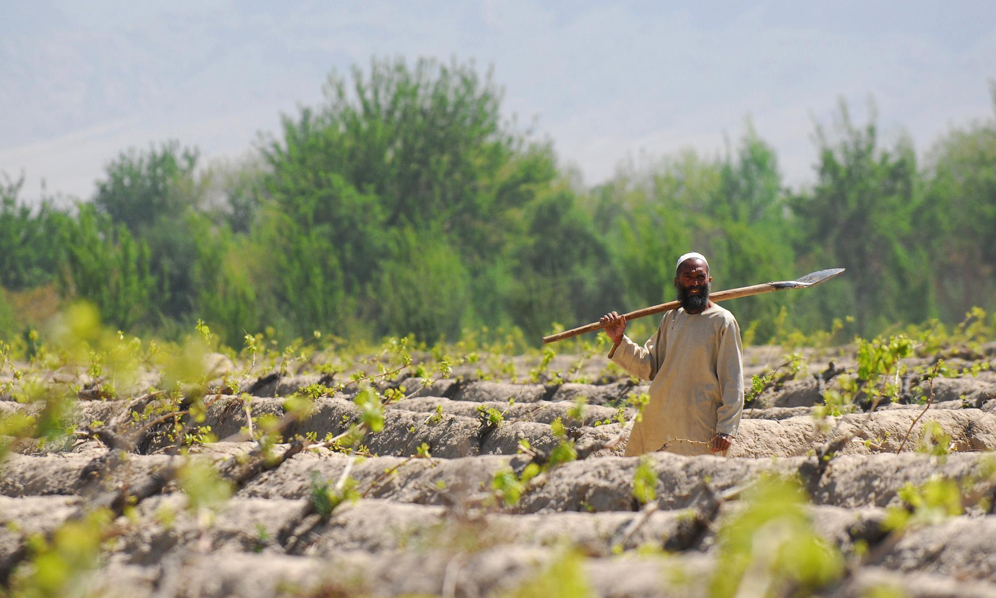 A farmer works in the fields, Friday, April 1, 2011, in the village of Tarok Kolache in the Arghandab River Valley of Afghanistan.